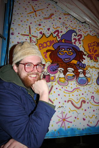 Dan Deacon having fun with an old friend